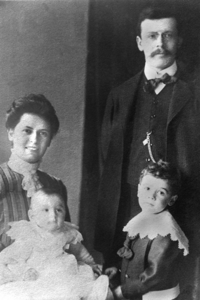 Siegfried Gumbel mit Frau Ida_und_den_Söhnen_Erich_und_Otto, um 1910